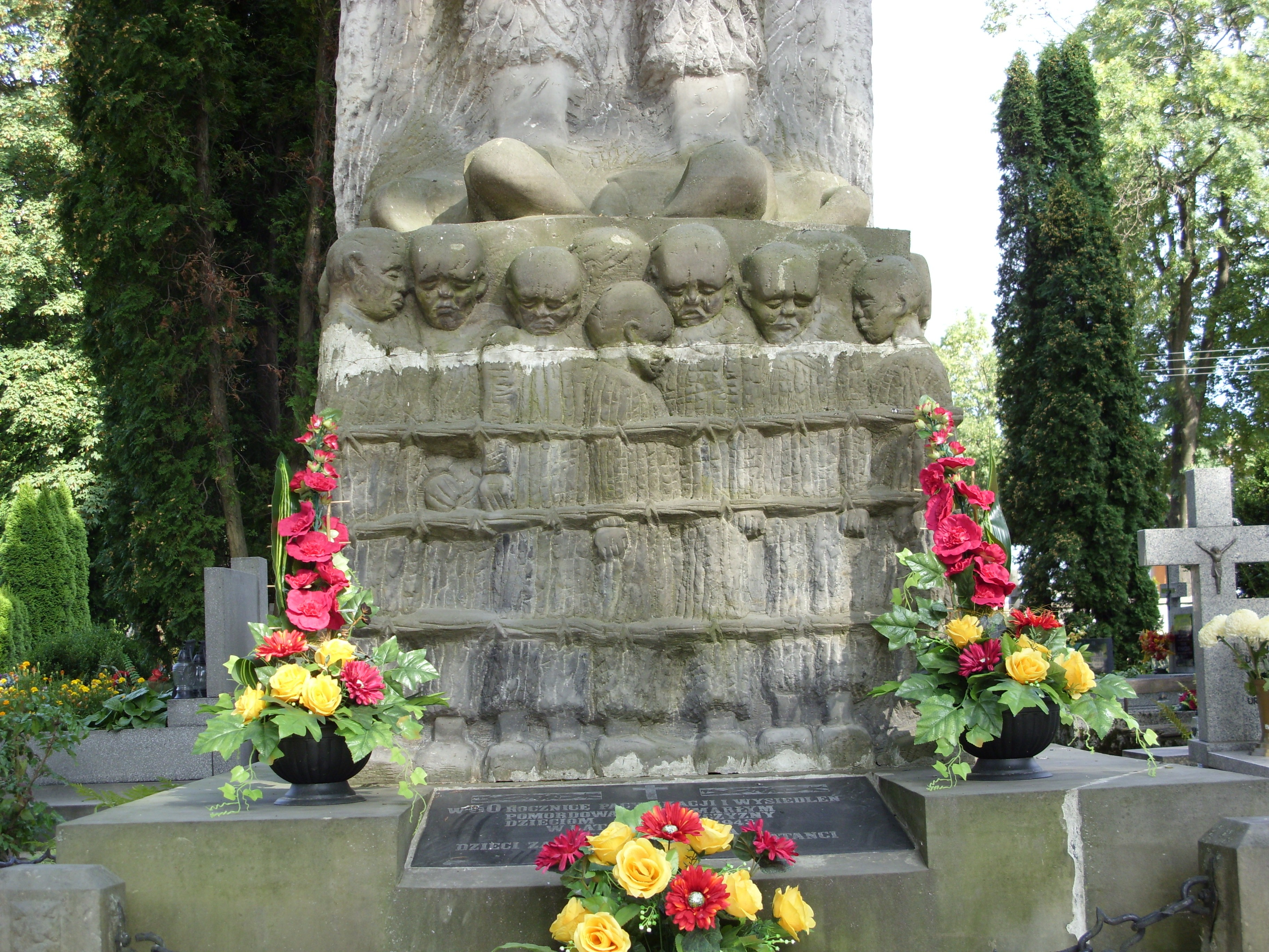 Children of Zamosc Region. Victims of Hitler's Nazi Germany. Monument in cemetery in Zamosc in Poland.